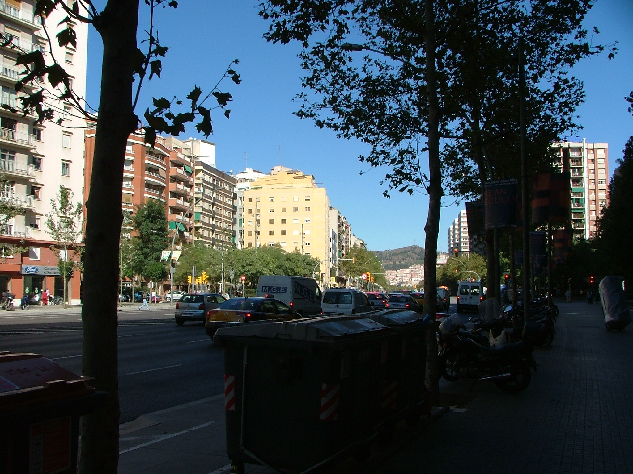 Avenida Meridiana, Barcelona, Catalonia, Spain